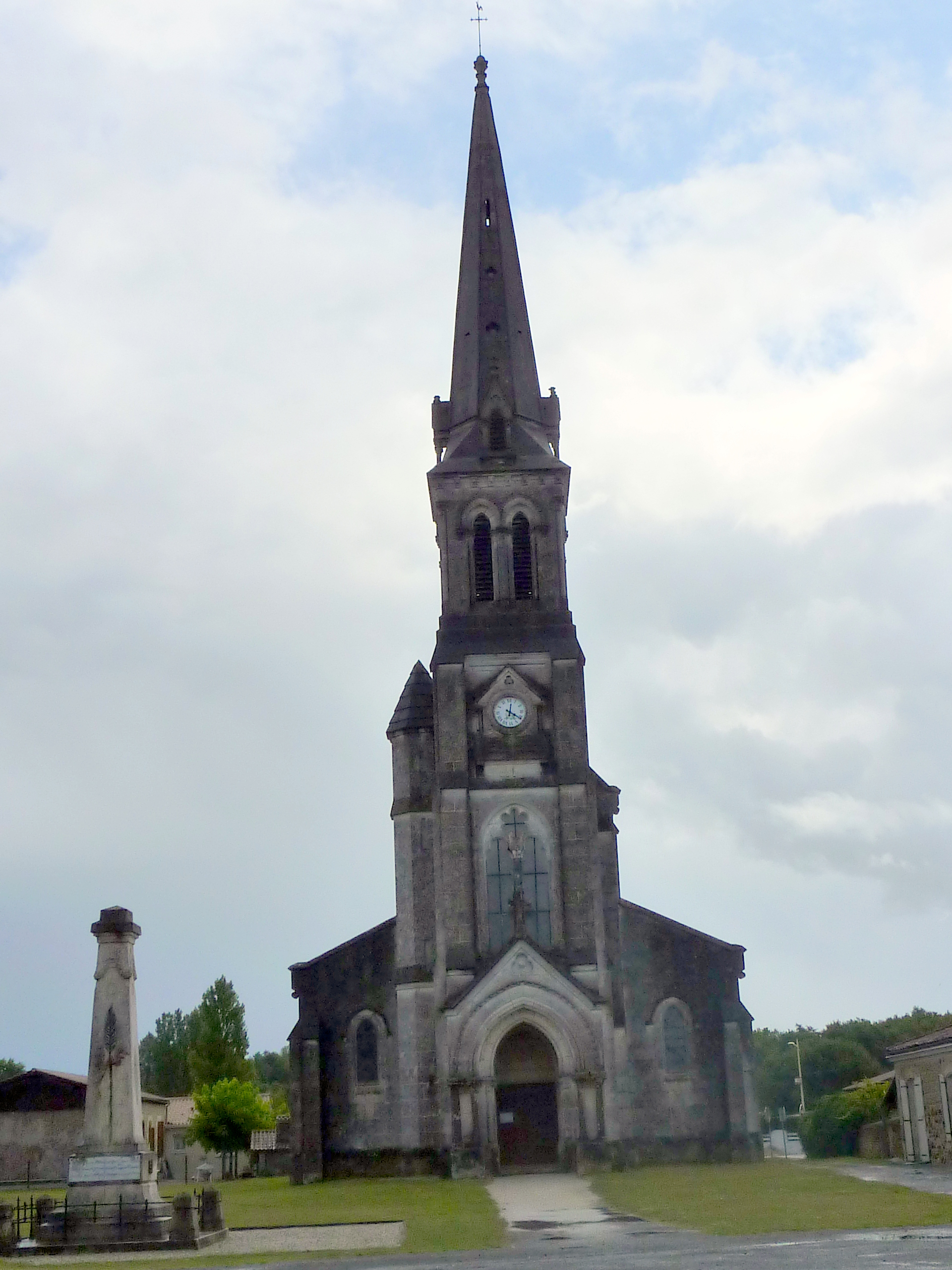 Church of Salaunes (Gironde)